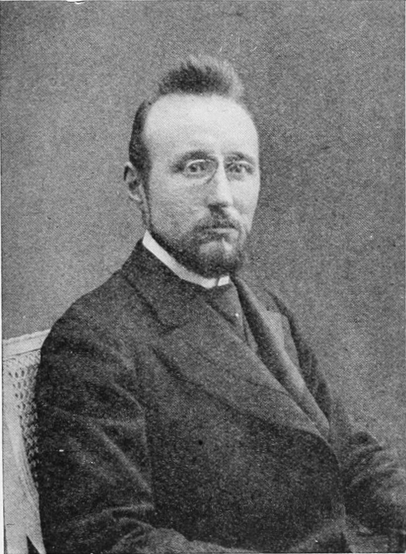 Black-and-white photo of Belgian zoologist Paul Pelseneer (1863-1945).